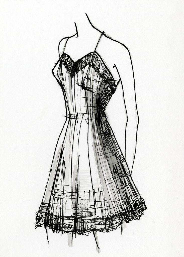 The description of the concept in this drawing is: Women's one-piece garments consisting of a camisole and bloomers. (AAT)